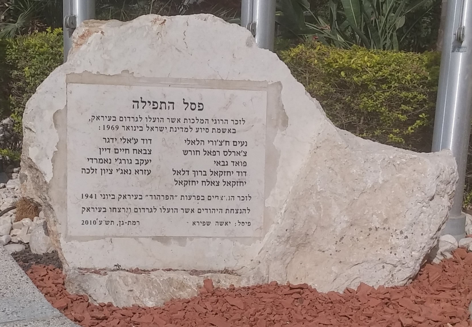 Plaque of Prayer sculpture in Ramat Gan: The Prayer Sculpture In memory of the Harugey HaMalkhut that were hanged in Iraq, with the charge of assissting the State of Israel in January 1969: Na'im Khthouri Hlali, Charles Refael Horesh, Fouad Gabai, David Yehezkel Barukh Dalal, Yehezkel Salah Yehezkel, David Ghali Yadgar, Sabah Haim Dayan, Ya'akoub Gourji Namroudi, Ezra Naji Tzion Zilkha In memory of the murdered in the Farhoud Pogroms in Iraq in June 1941 In commemoration of the Jews hanged and murdered in Iraq Sculpted: Yasha Shapira; Ramat Gan 2010